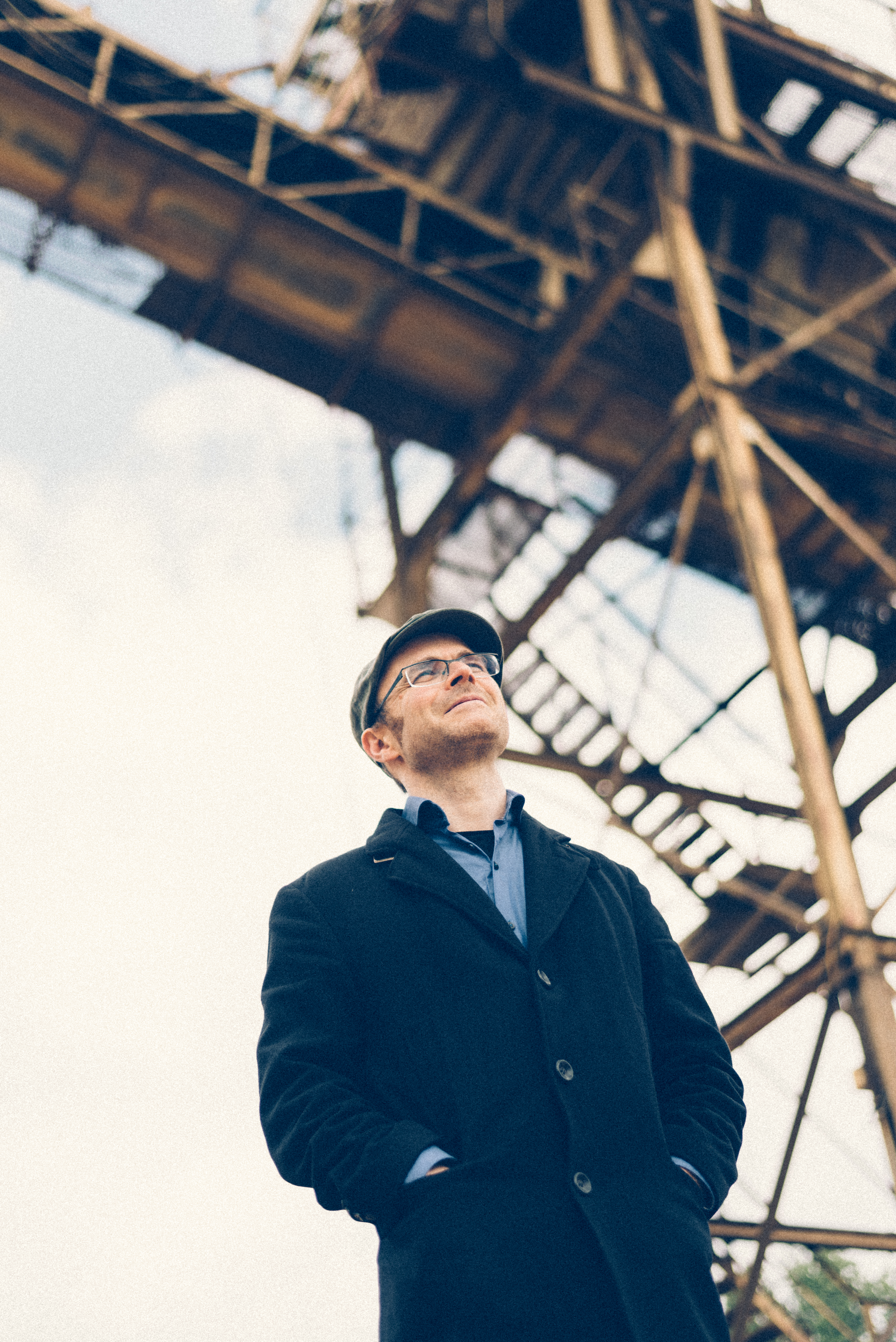 Christoph Maria Wagner // Foto: Martin Gendig